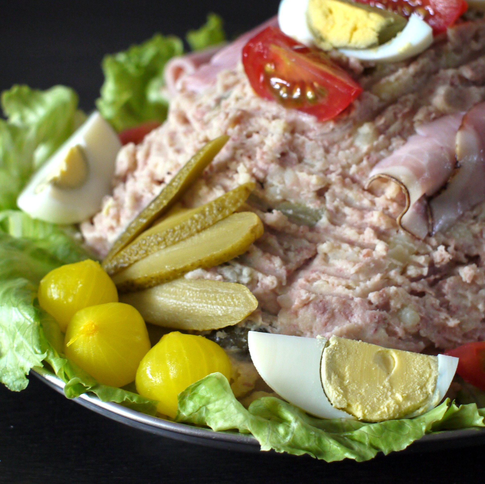 Home made Dutch potato salad with egg, corned beef, chopped onions and gherkins, and mayonnaise, with on the side boiled egg, sliced gherkins, tomatoes, ham, and "amsterdamse uitjes" (small onions which have been pickled in vinegar and spices; turmeric gives them a yellow colour)